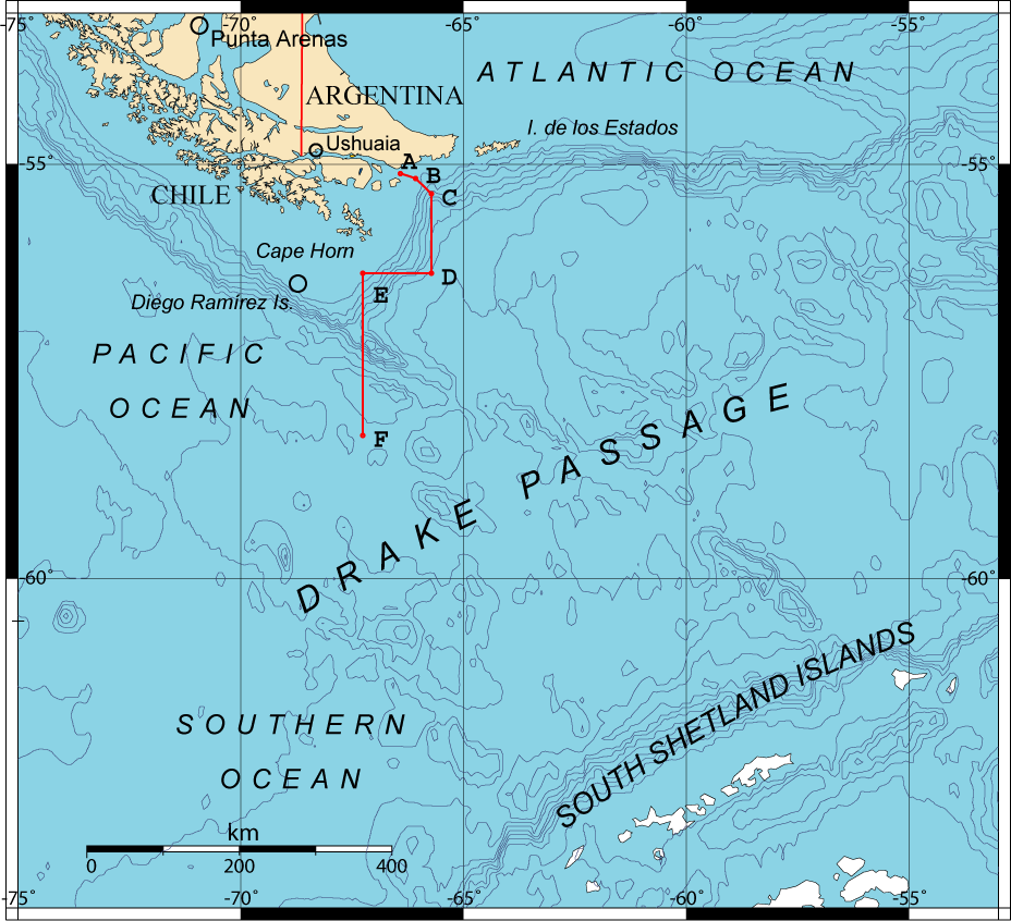 Drake Passage Map showing de boundary through points A, B, C, D, E and F accorded between Chile and Argentina by the Tratado de Paz y Amistad of 1984.